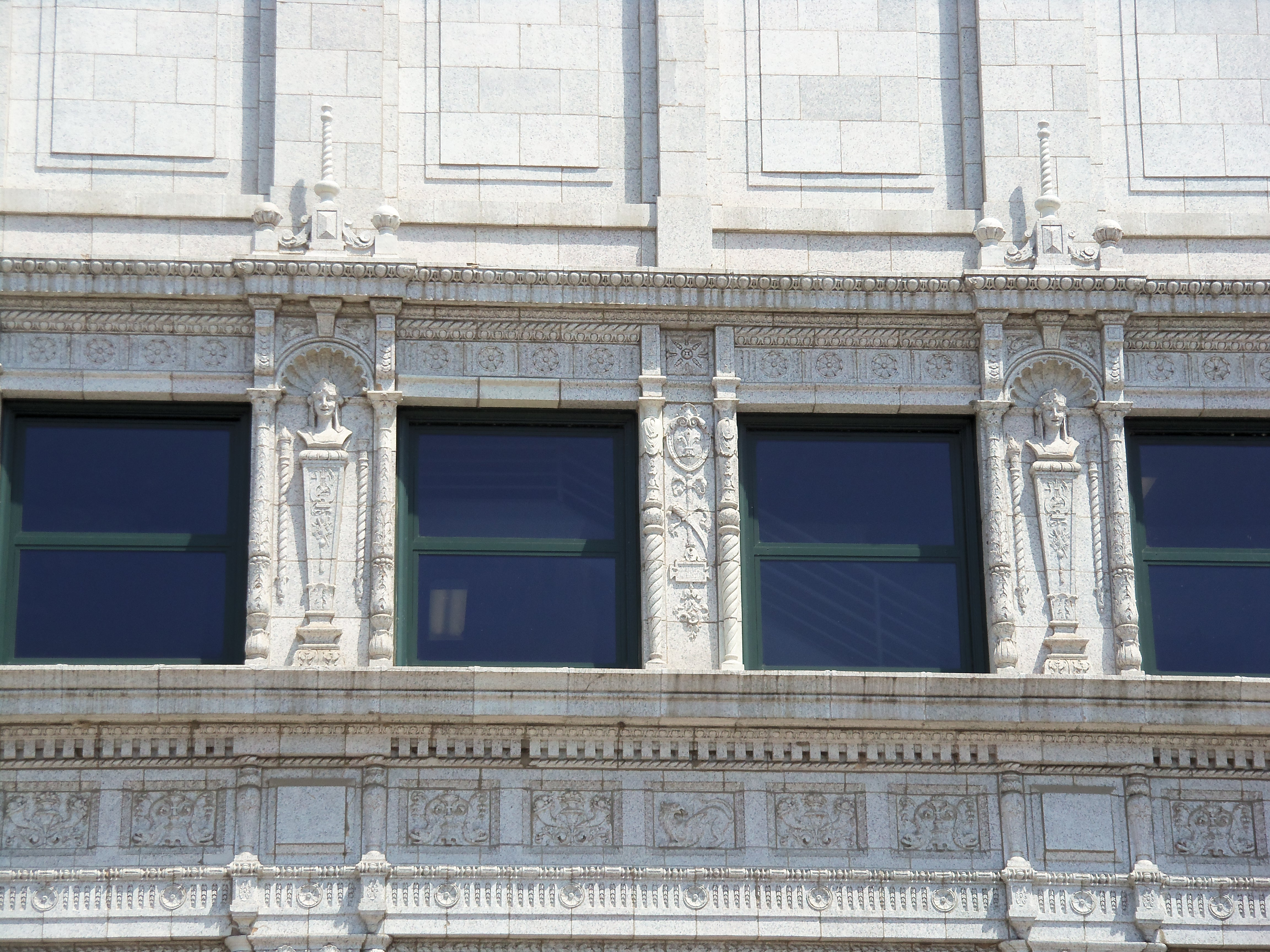 Decorative detail on the Kahl Building in Davenport, Iowa.